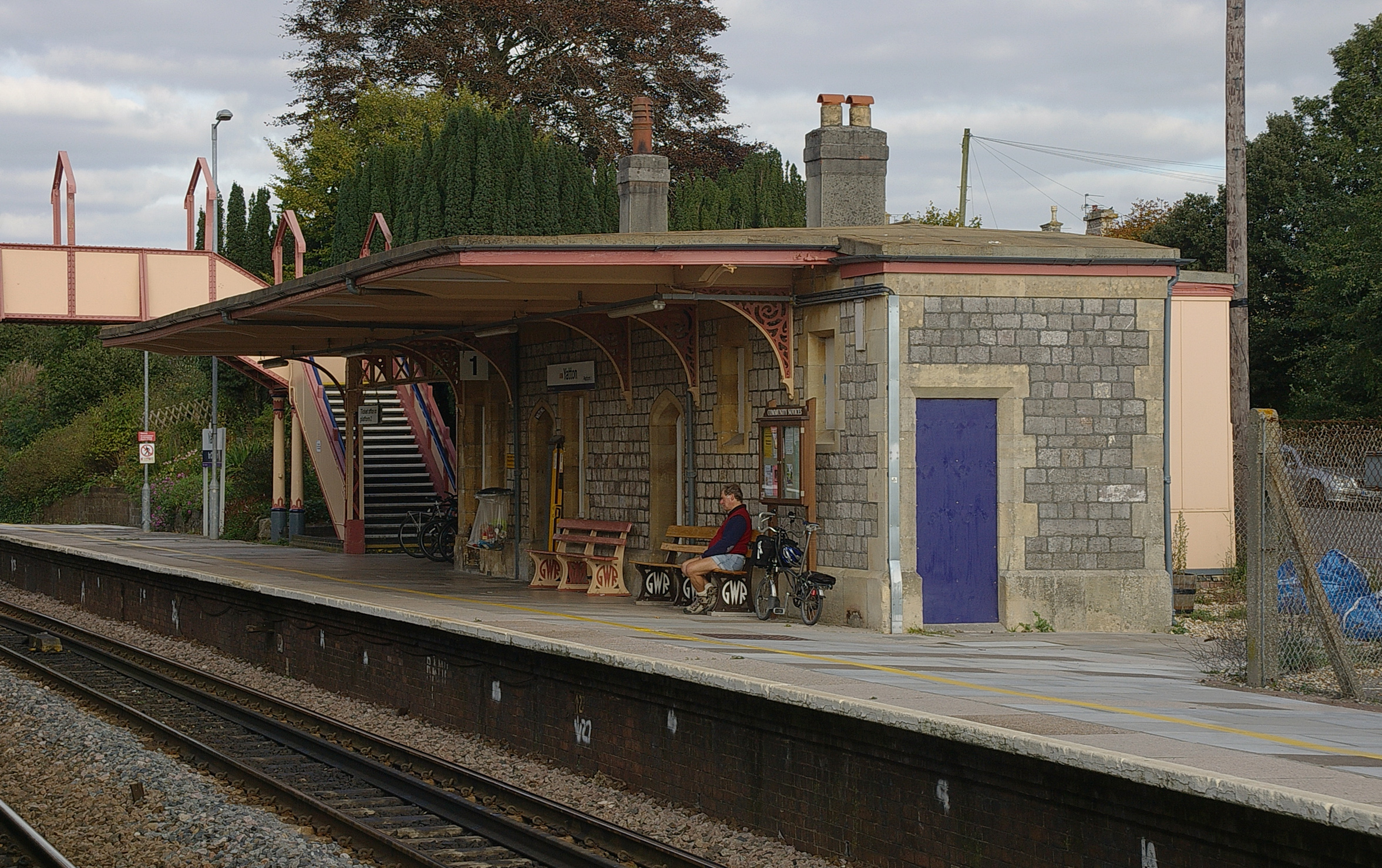 The southbound platform at Yatton railway station.